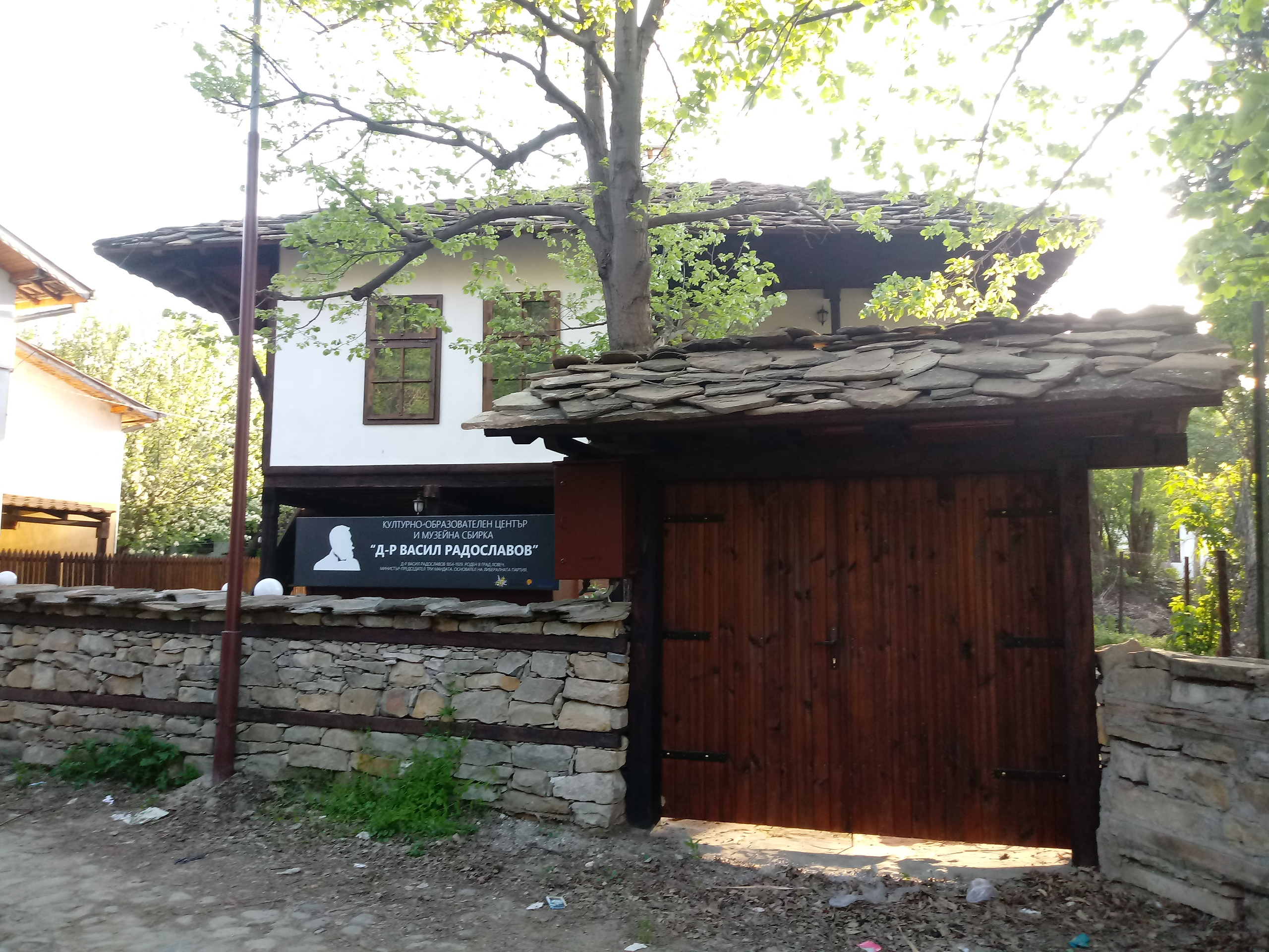 Vasil Radoslavov house-museum and cultural-educational centre, Lovech